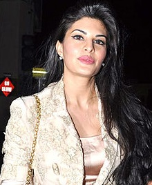 Jacqueline Fernandez at the 'Race 2' press conference